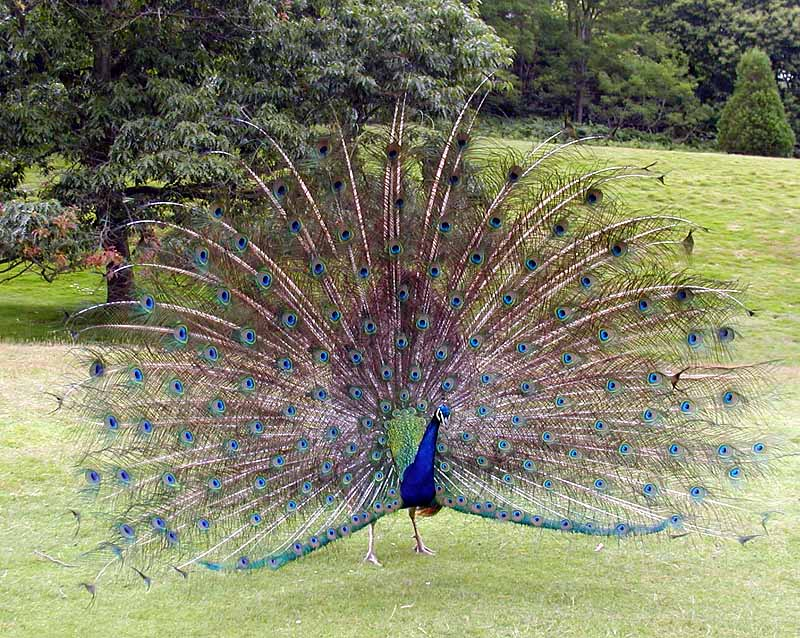 Male Indian peafowl (Pavo cristatus) displaying